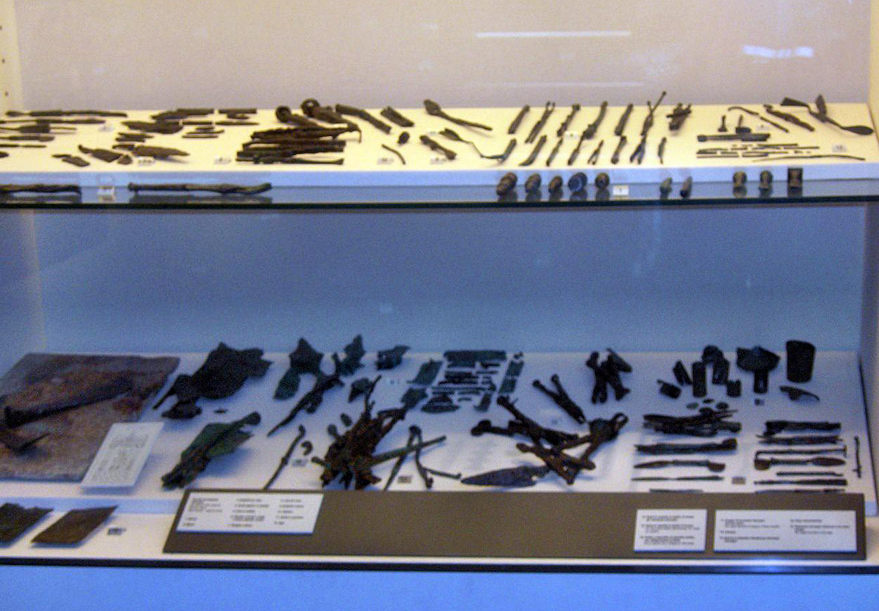 Roman surgical instruments; from the "Surgeon's House" in Ariminum (Rimini, Italy). On display at the Museo della città di Rimini. Ancient Roman medicine.